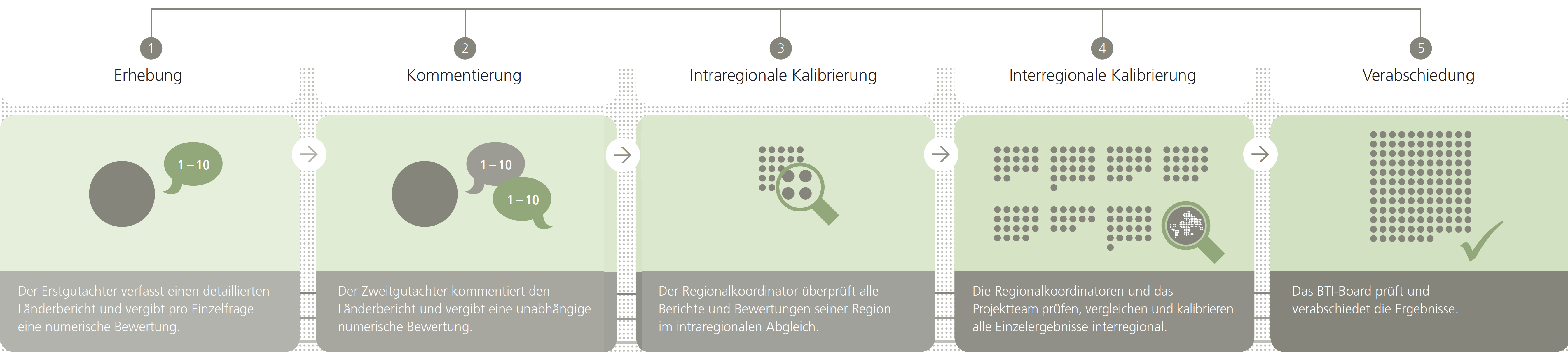 graphical explanation of BTI measurement and review process